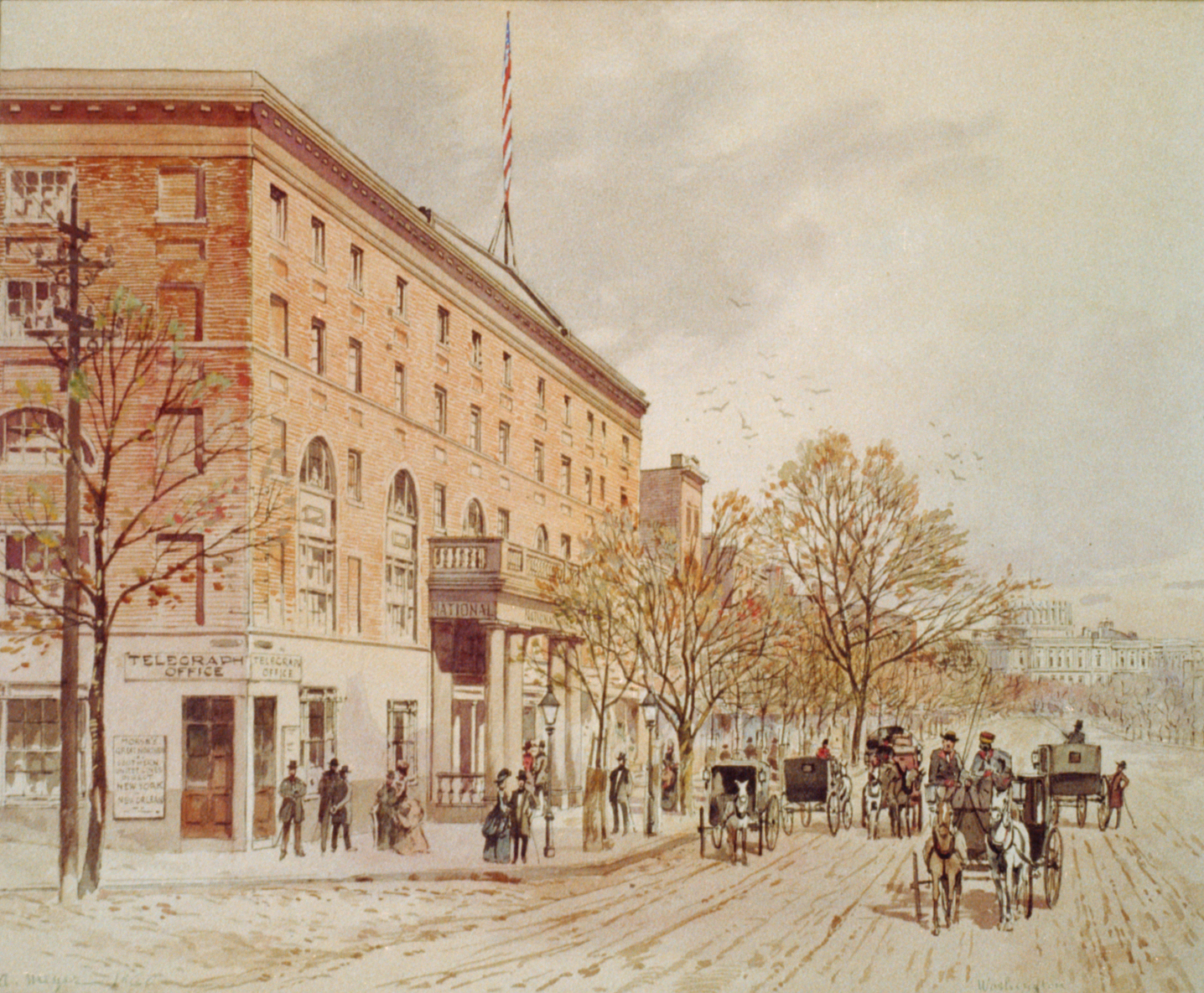 1860 view of Pennsylvania Avenue in Washington, D.C., United States, looking southeast toward the unfinished U.S. Capitol. The National Hotel (now demolished), at 6th Street and Pennsylvania Avenue, is on left.